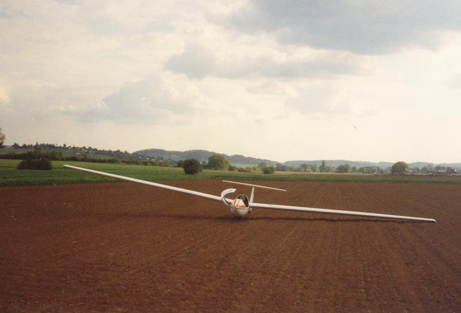 Grob G102 Club IIIb Summer 1991, close to Reinheim Airfield, Germany. Obviously I didn't make it home... ;-) Picture taken by me.